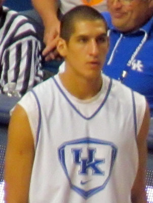 Kentucky Wildcats men's basketball player Derek Willis at the team's 2014 Blue-White scrimmage at Rupp Arena in Lexington, Kentucky